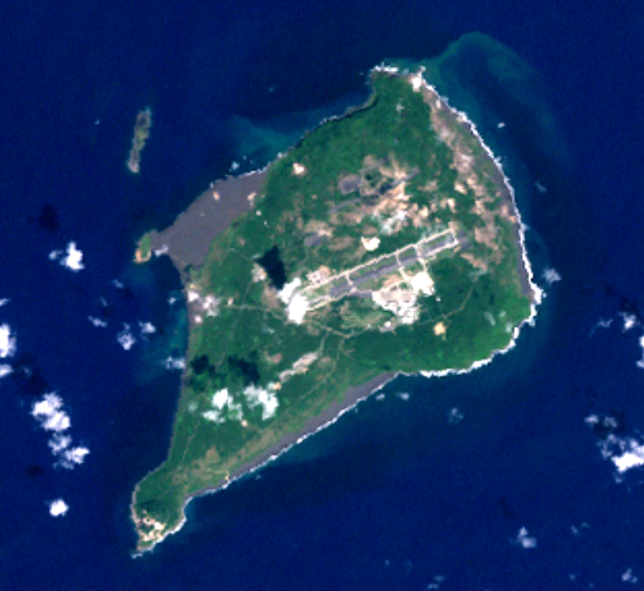 Landsat image of Port of Iwo-to (Iwo Jima) at Ogasawara Island, Japan.